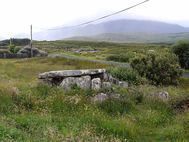 The Srahwee Megalithic Wedge Tomb is one of the finest megalithic tombs in Ireland, dating from the Bronze Age (about 2,000 BC). The tomb was subsequently used as an altar in early Christian times and a cross has been incised into the flat roof stone.